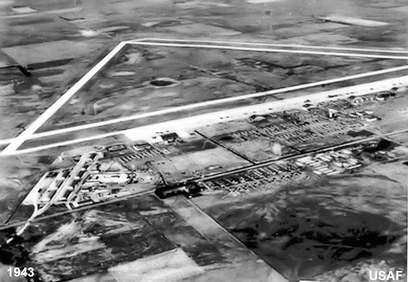 Pratt Army Airfield 1943